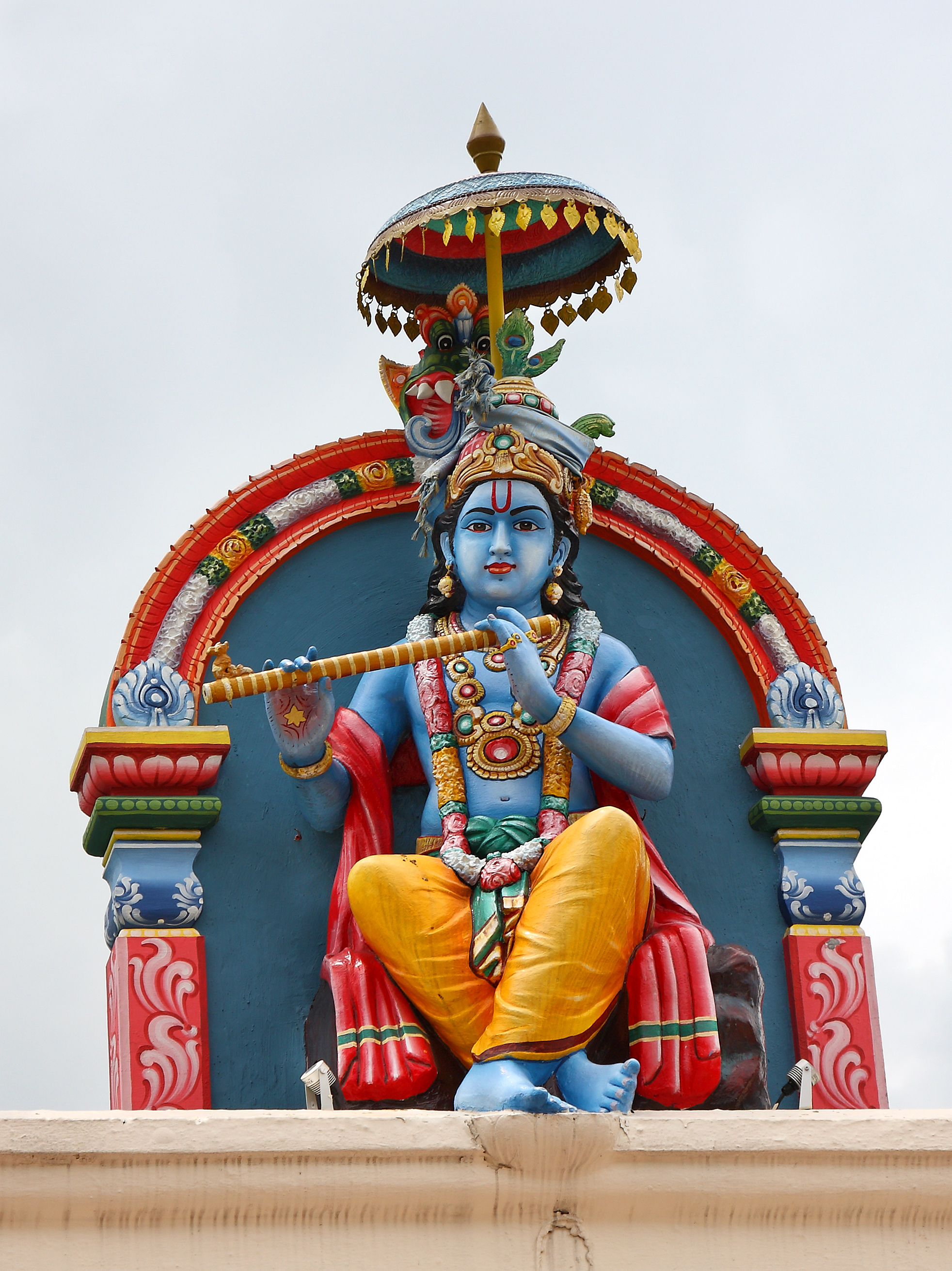 Krishna Statue at the Sri Mariamman Temple (Singapore).